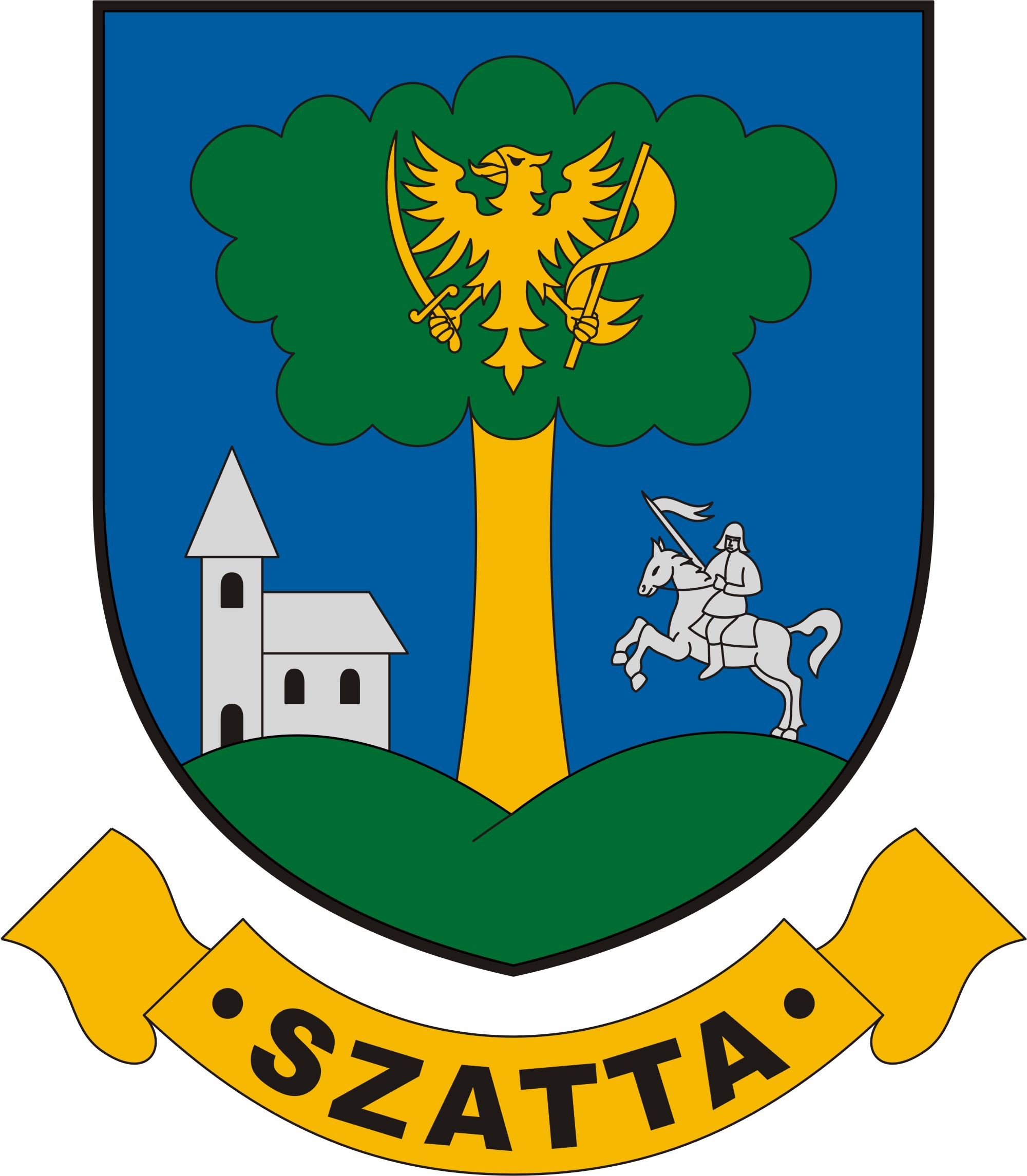 Coat of arms of Szatta, Hungary